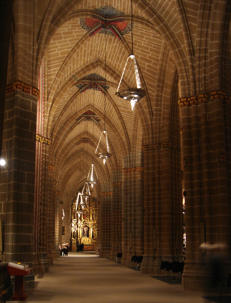 Cathedral of Pamplona